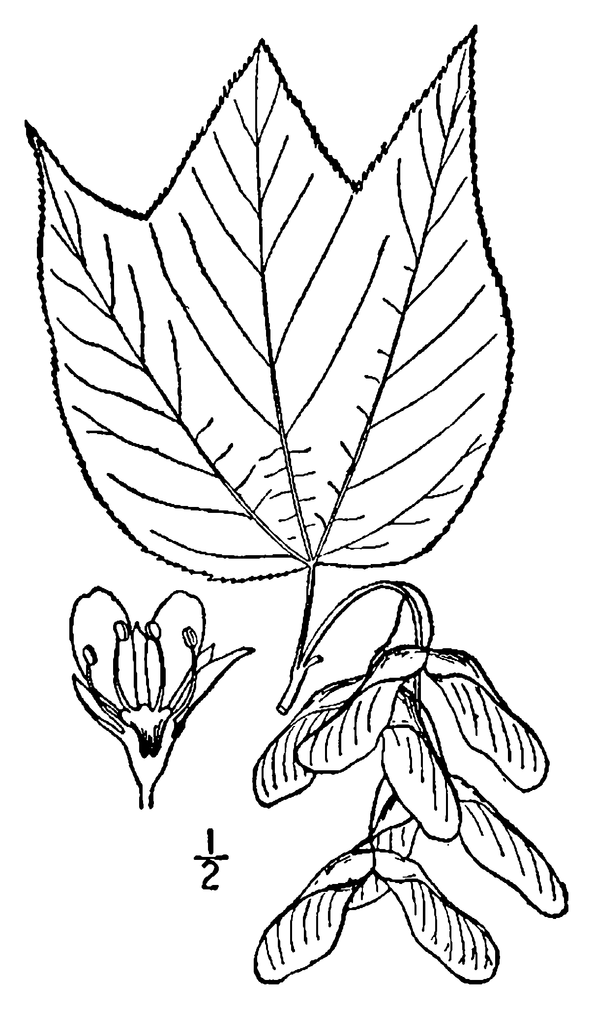 Striped Maple. Seeds. Pennsylvania, USA.